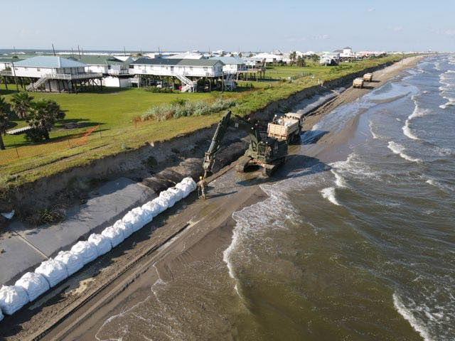 Louisiana National Guard Soldiers with the 843rd Engineer Company work around the clock to assist local and state agencies to reinforce exposed burrito levee in Grand Isle in preparation for Tropical Storms Marco and Laura, later a Hurricane.